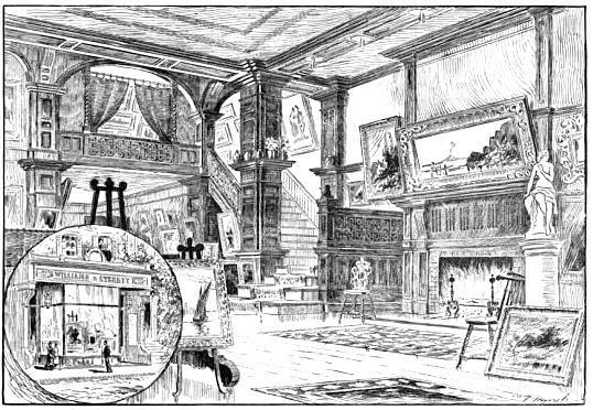 Williams & Everett gallery, Boylston St. at Park Square, Boston, 1889